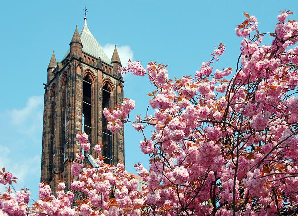 Church and cherries, Belfast The tower of the Crescent Church rising above the cherry blossom beside Upper Crescent. The church (now used by the Christian Brethren) was built as a Presbyterian church in 1885-87 to a design by John Bennie Wilson.